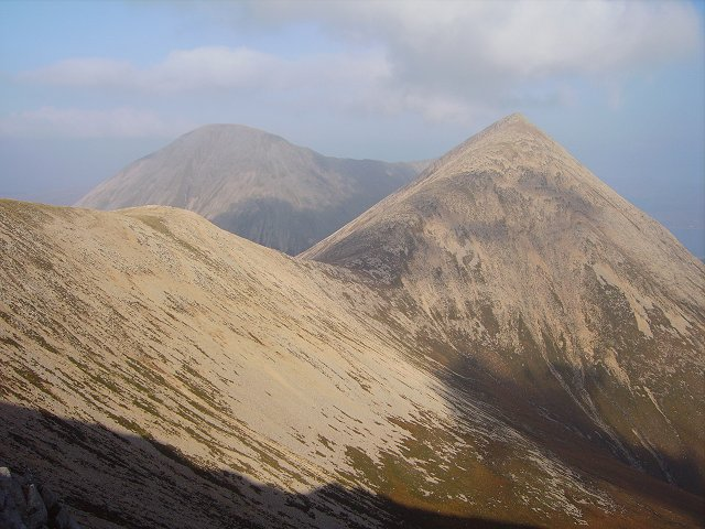 Beinn Dearg